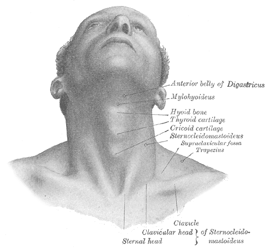 Structure of Adam's Apple - Diagram